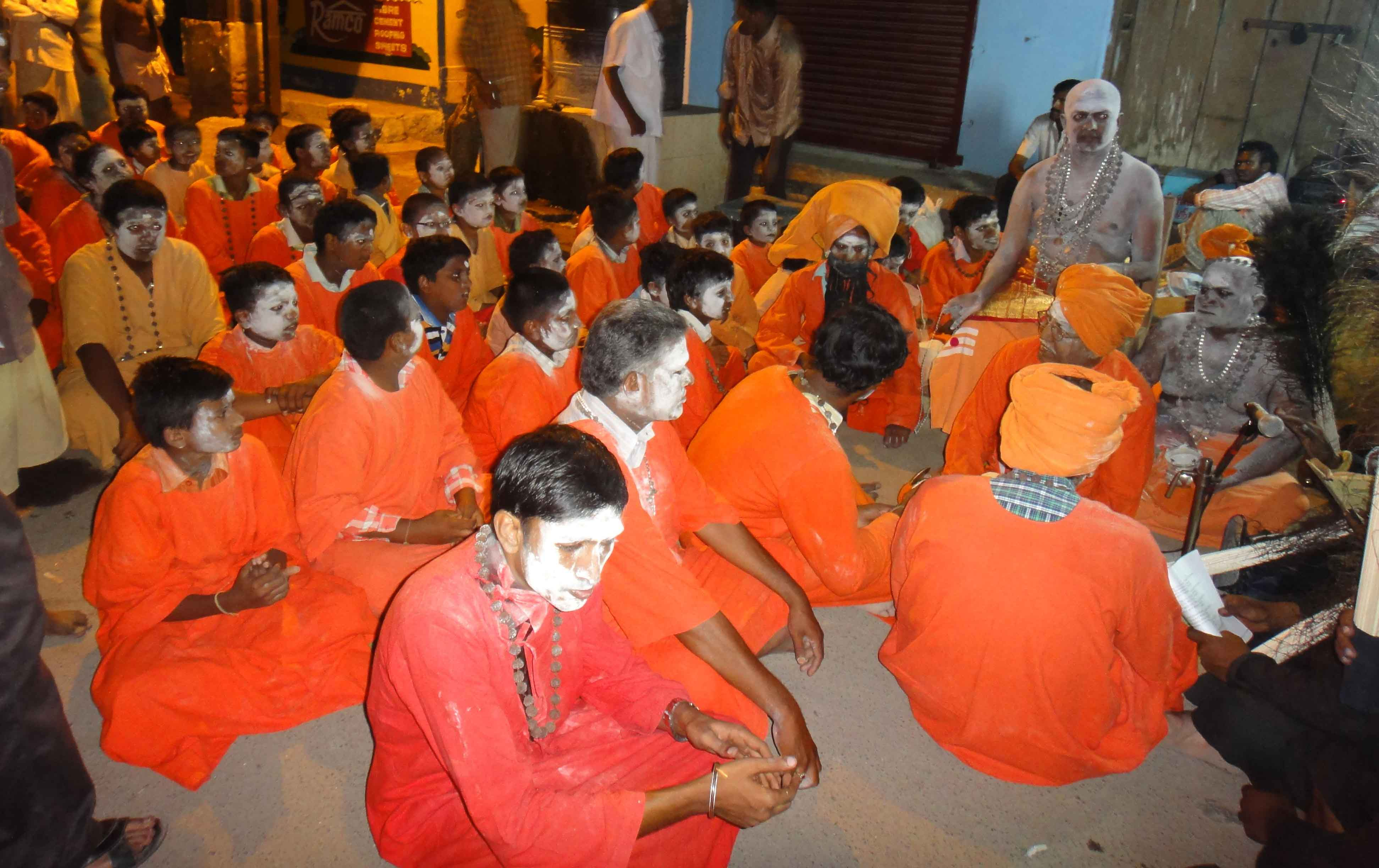 Samanargal Kazhuvetram